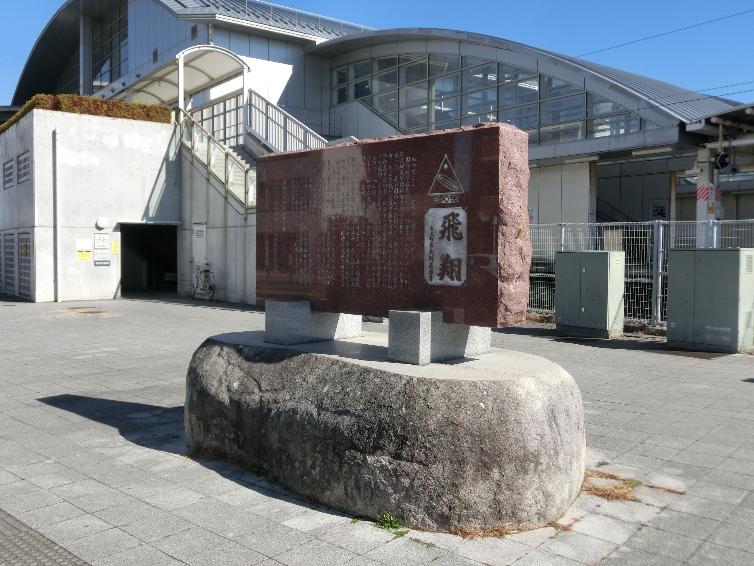 Bampaku Chuo Station monument